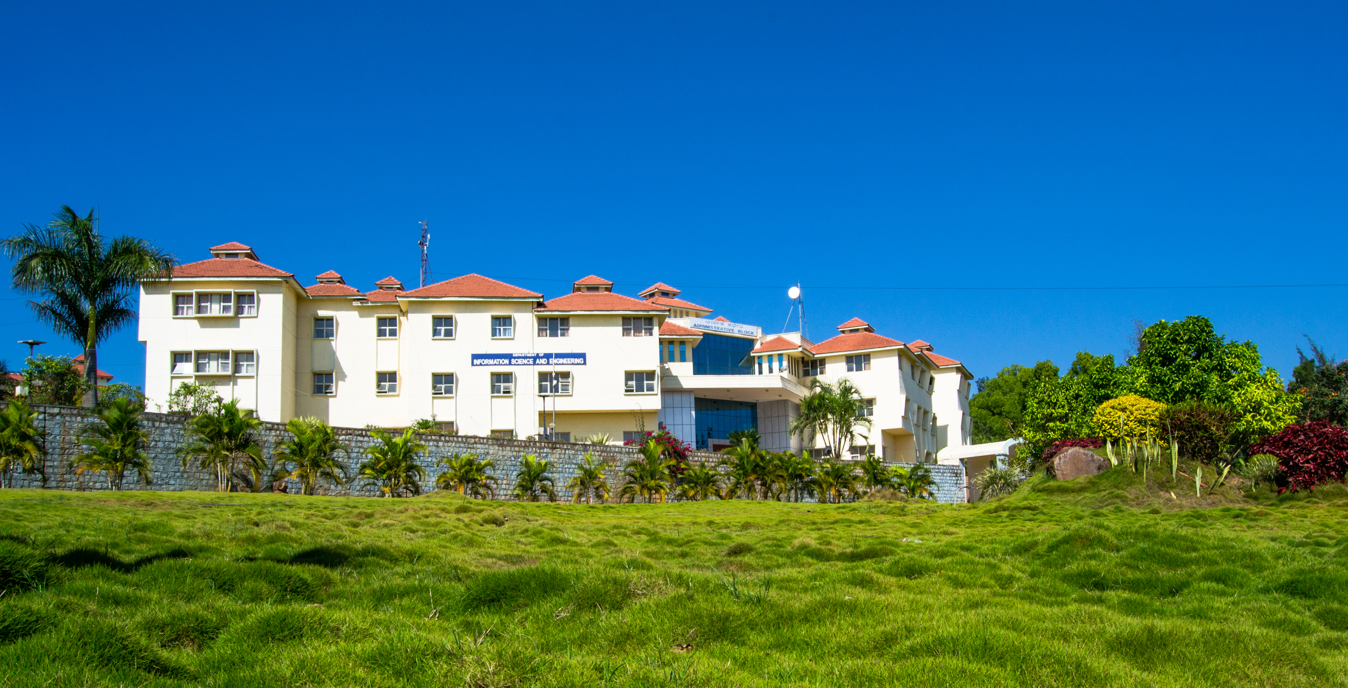 The outside view of Department of Information Science and Technology, Adichunchanagiri Institute of Technology, Chikkamagaluru